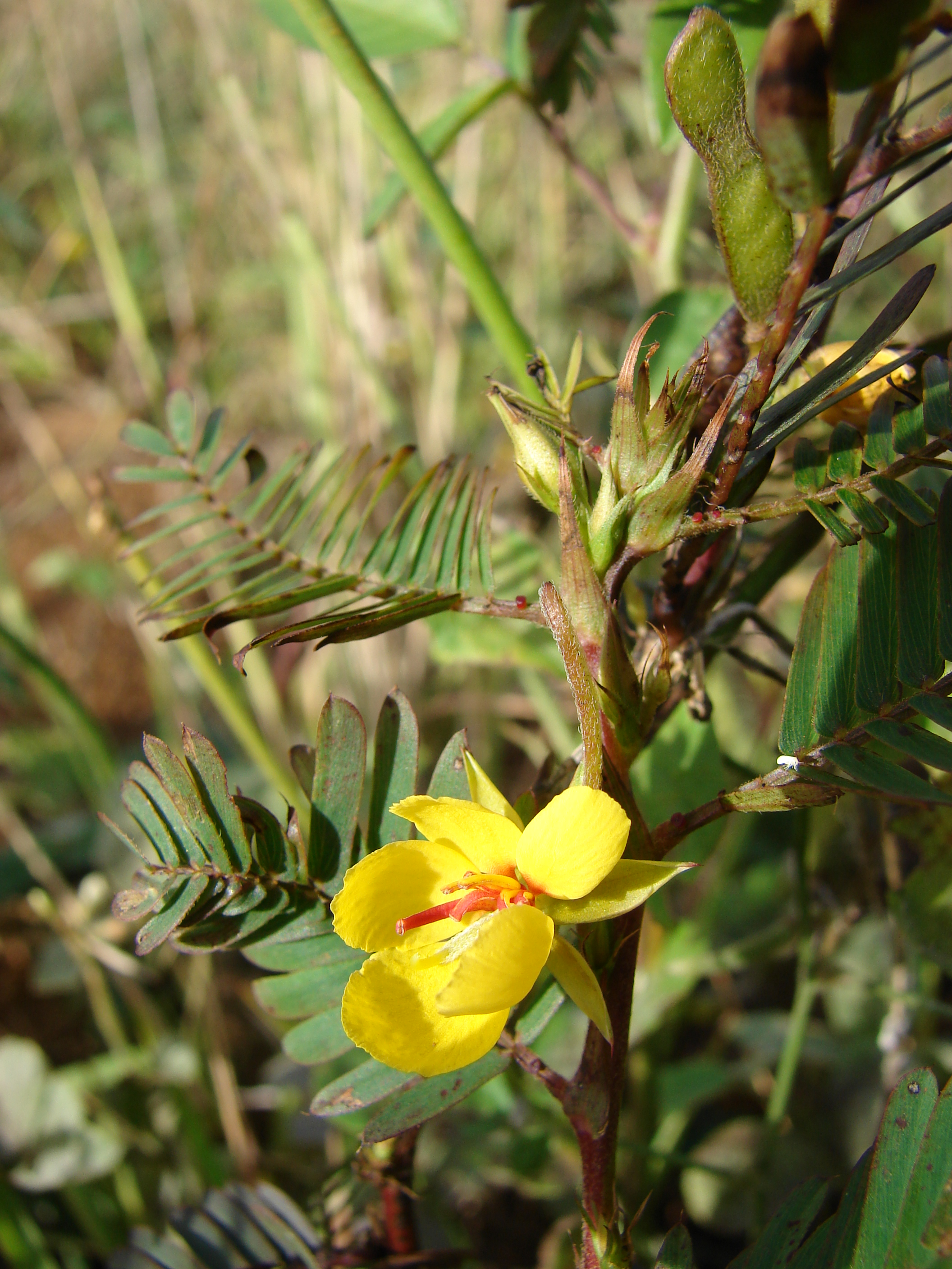 Chamaecrista nictitans (flower). Location: Kahoolawe, LZ1